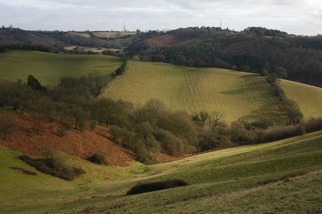 Hills to the east of Walton Hill View east from Walton Hill. The wooded hill in the background is Romsley Hill.